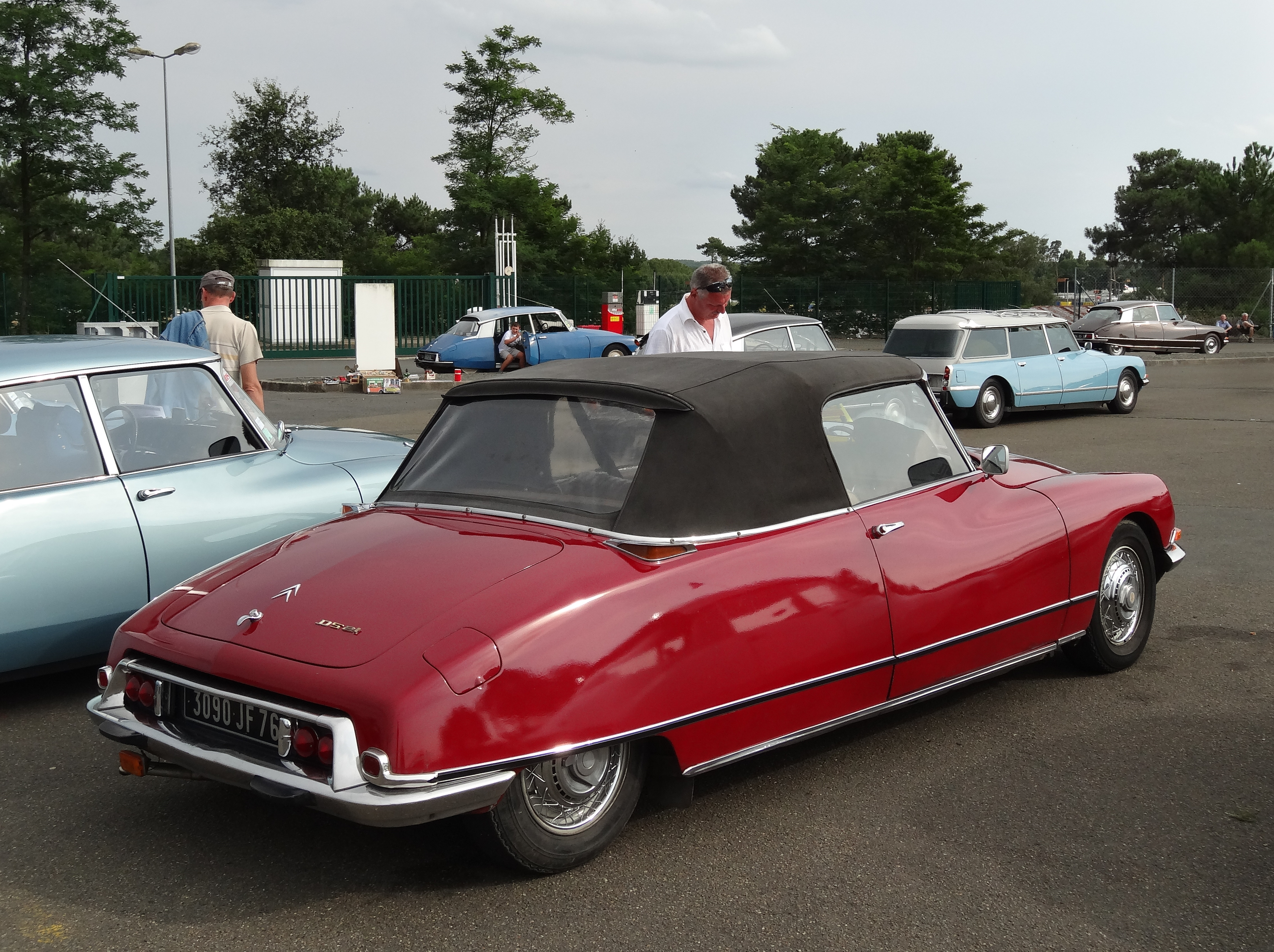 EuroCitro 2014 Le Mans 2153 Citroën DS Cabriolet